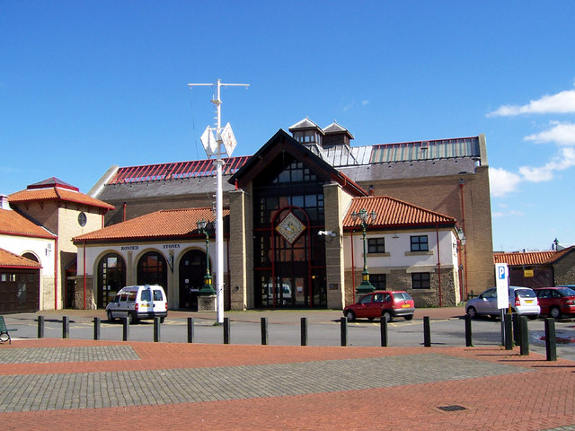 National Fishing Heritage Centre. National Fishing Heritage Centre, Alexandra Dock, Grimsby.